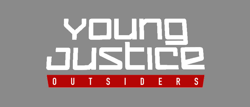 Logo of the television season Young Justice: Outsiders.